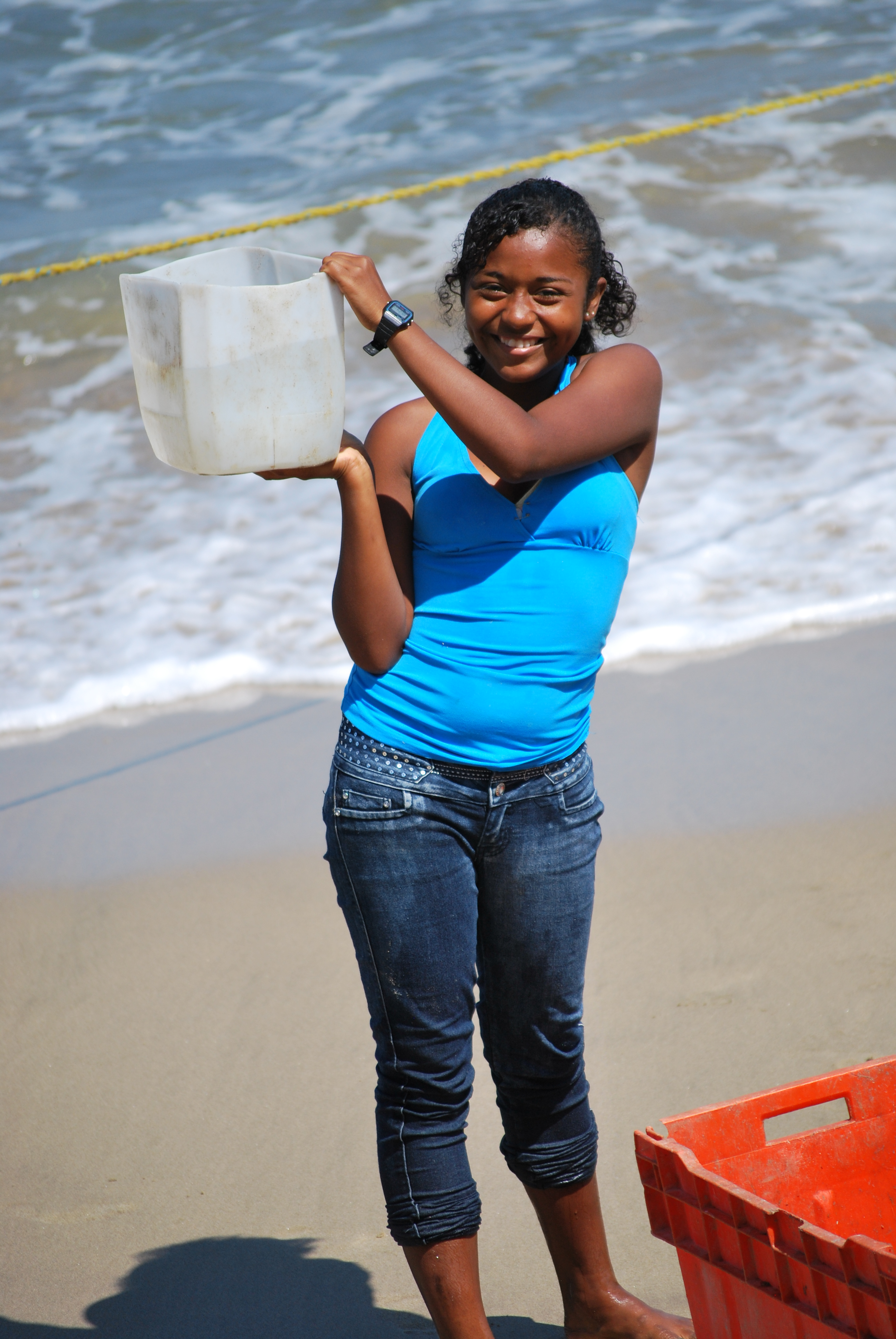 Afromestizo girl in Punta Maldonado, Cuajinicuilapa, Guerrero